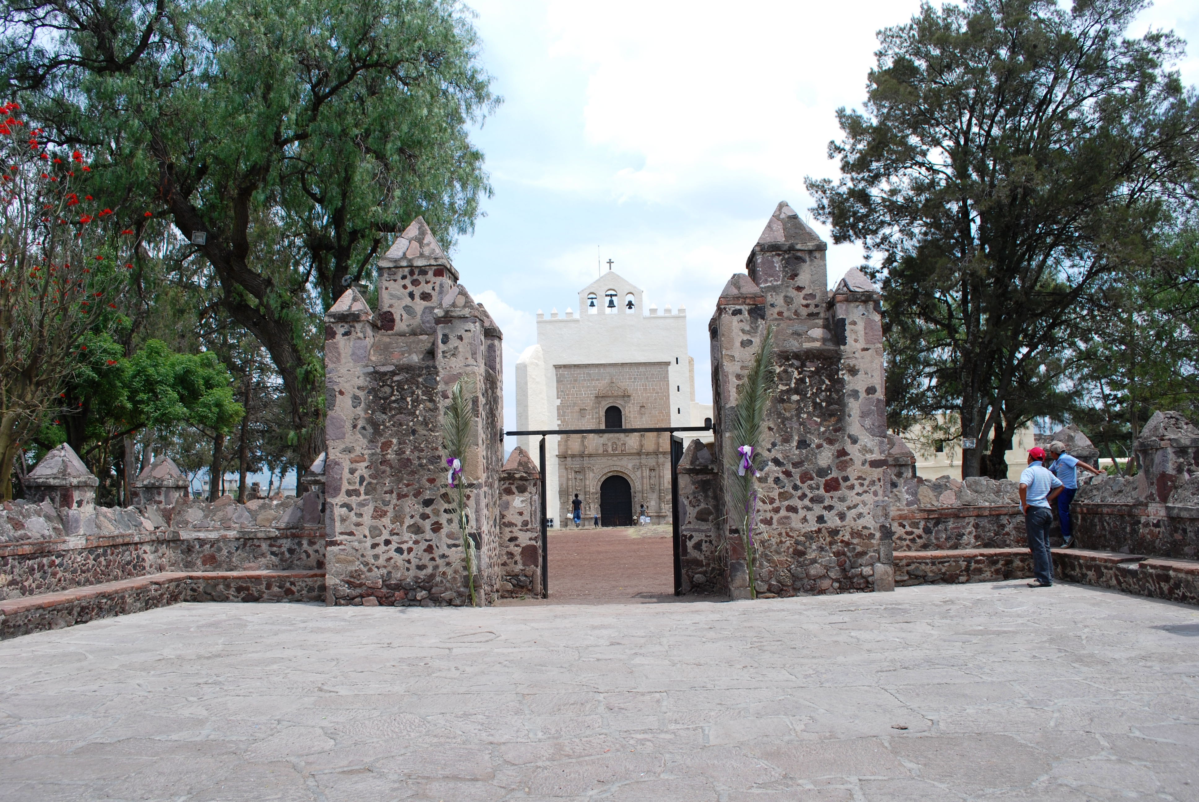 Looking through main gate towards church of the former monastery of Acolman, Mexico State